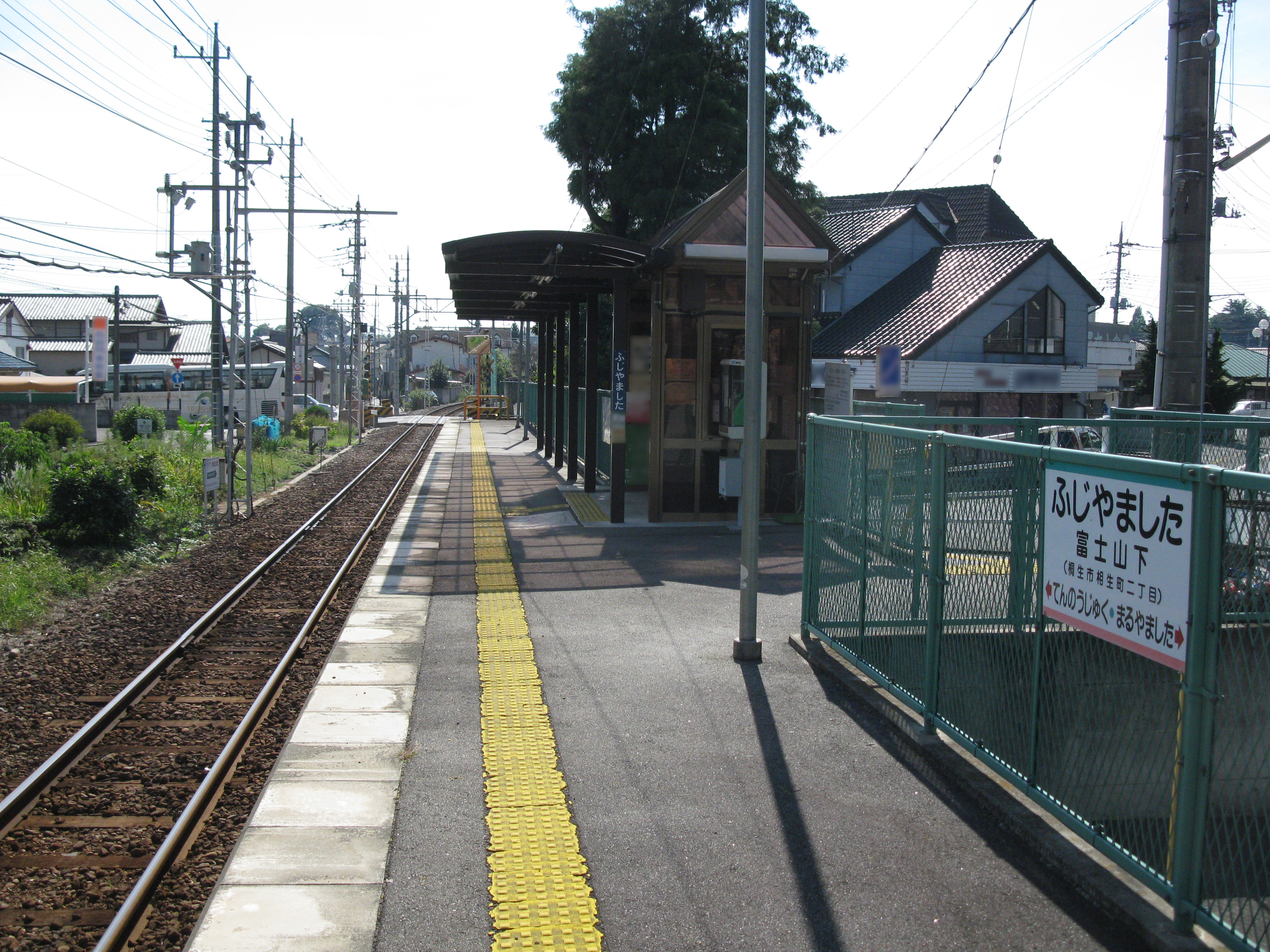 Fujiyamashita Station platform (Jōmō Electric Railway Company Jōmō Line)